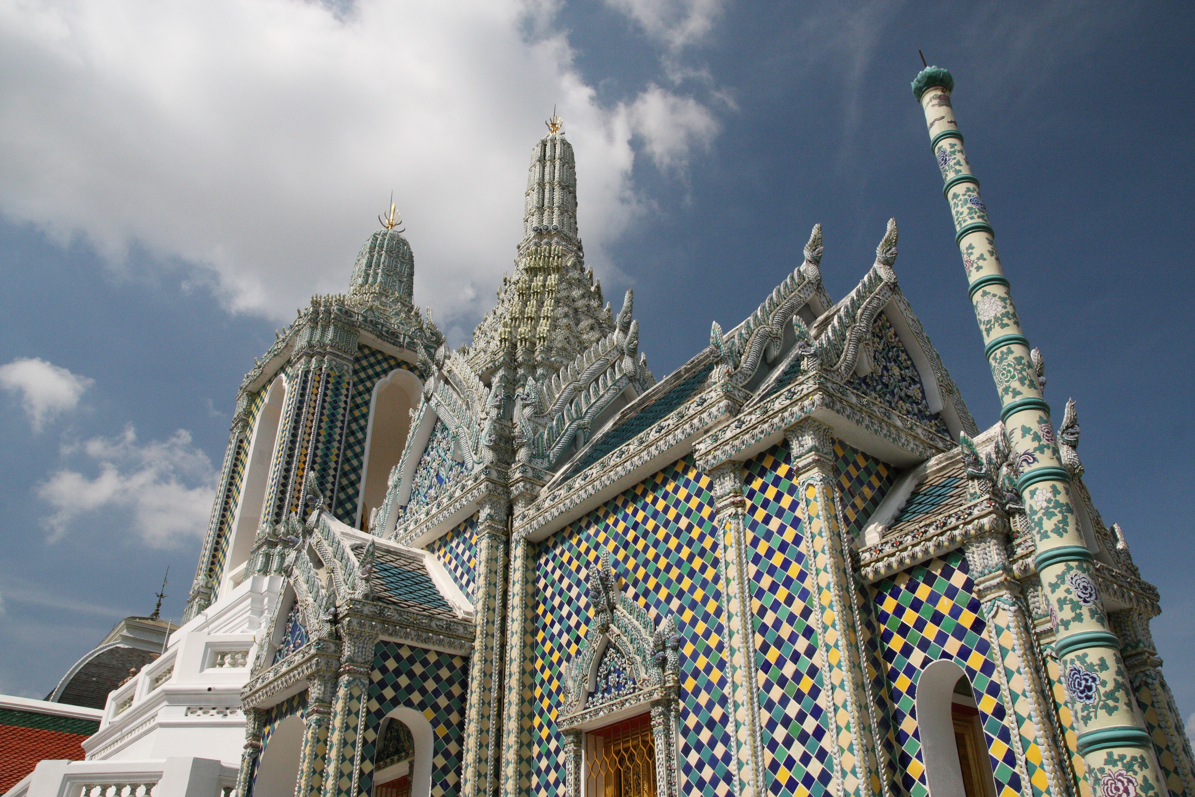 The Gandhara Buddha Wihan, Wat Phra Kaew, Bangkok, Thailand